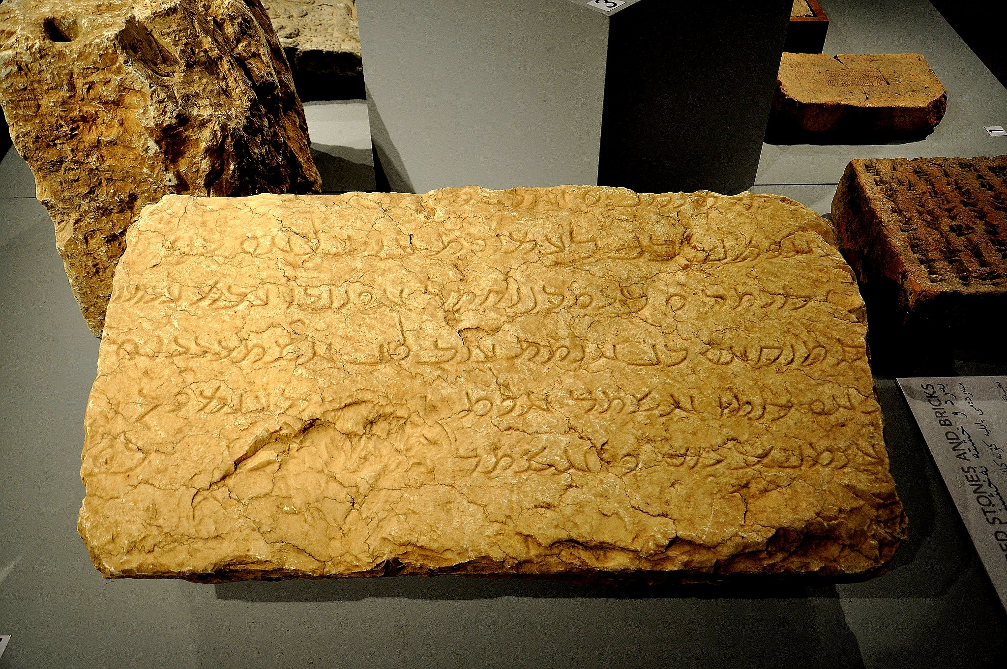 A block, f7, from the Paikuli Tower inscribed with Parthian language. Sassanian, c. 293 CE. From From the Paikuli Tower of Narseh, Sulaymaniyah, Iraq. The Sulaymaniyah Museum, Iraq.